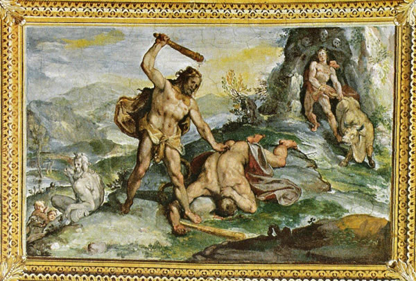 Caïn and Abel